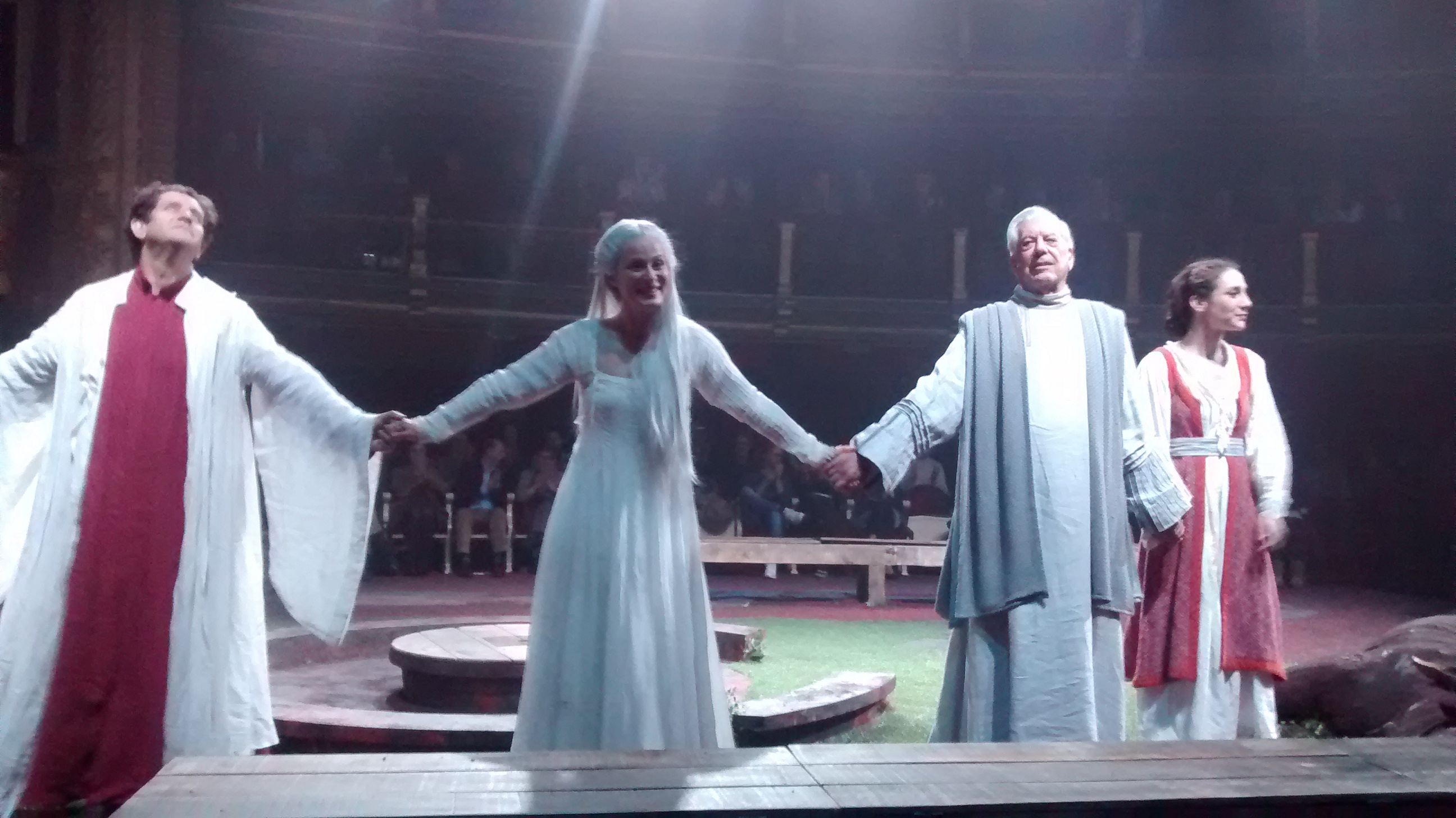 Mario Vargas Llosa and Aitana Sánchez-Gijón playing "Los cuentos de la peste" in Teatro Español, Madrid. 6th February 2015